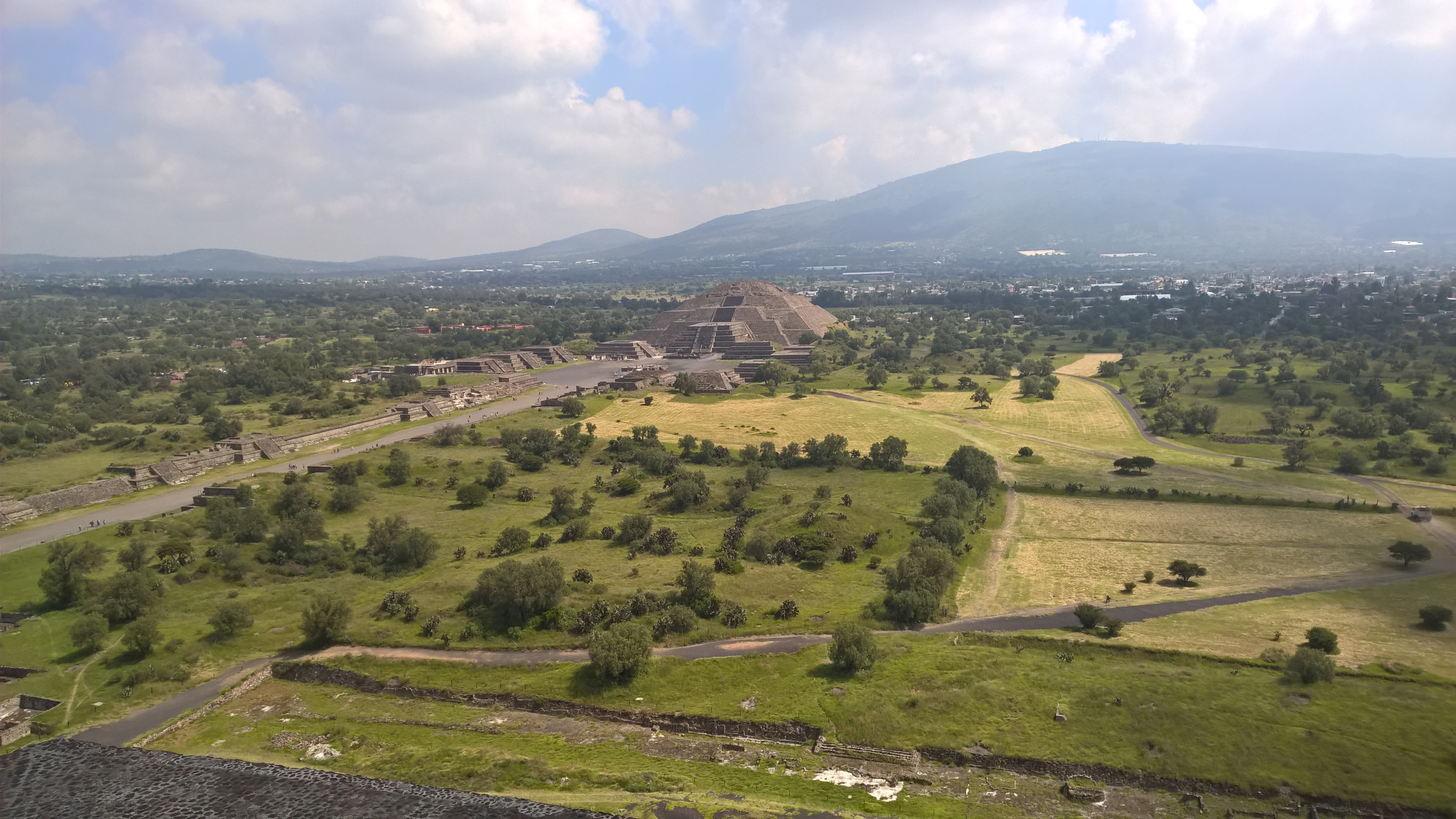 View from Pyramid of the Sun